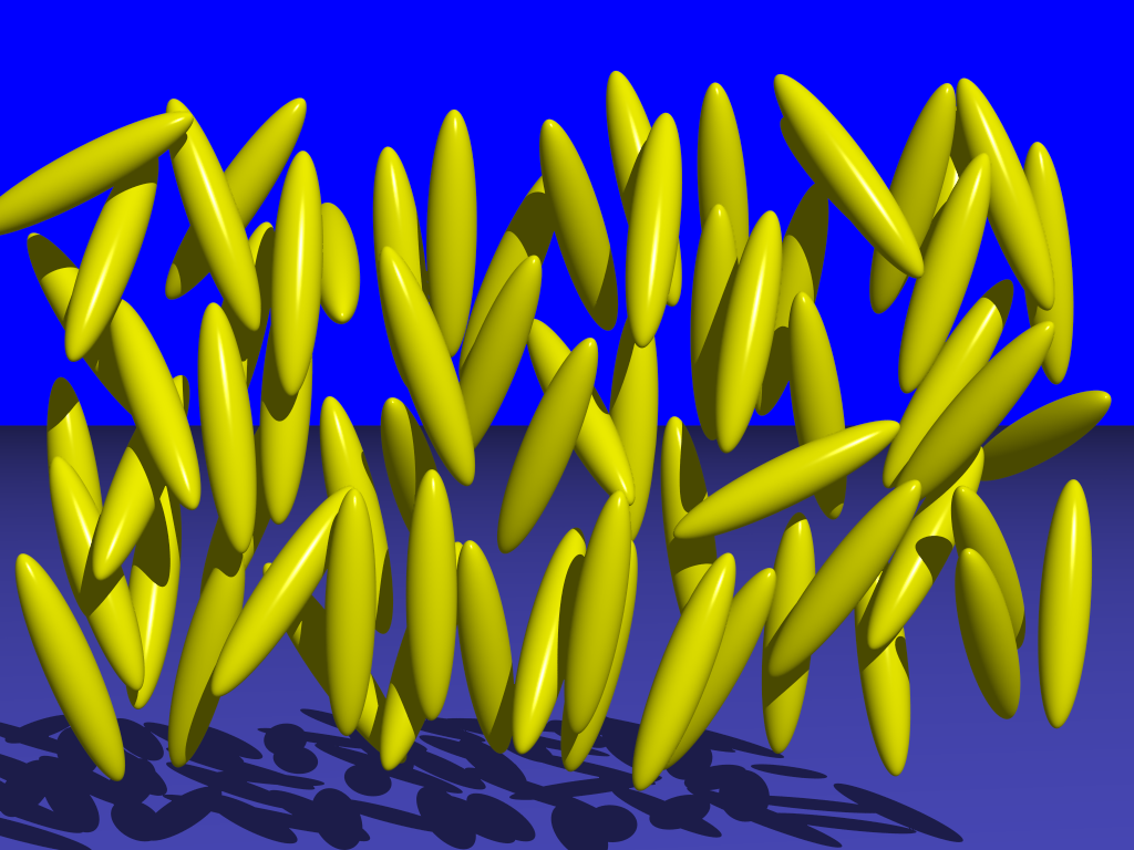 3D representation of a liquid crystal in the nematic state